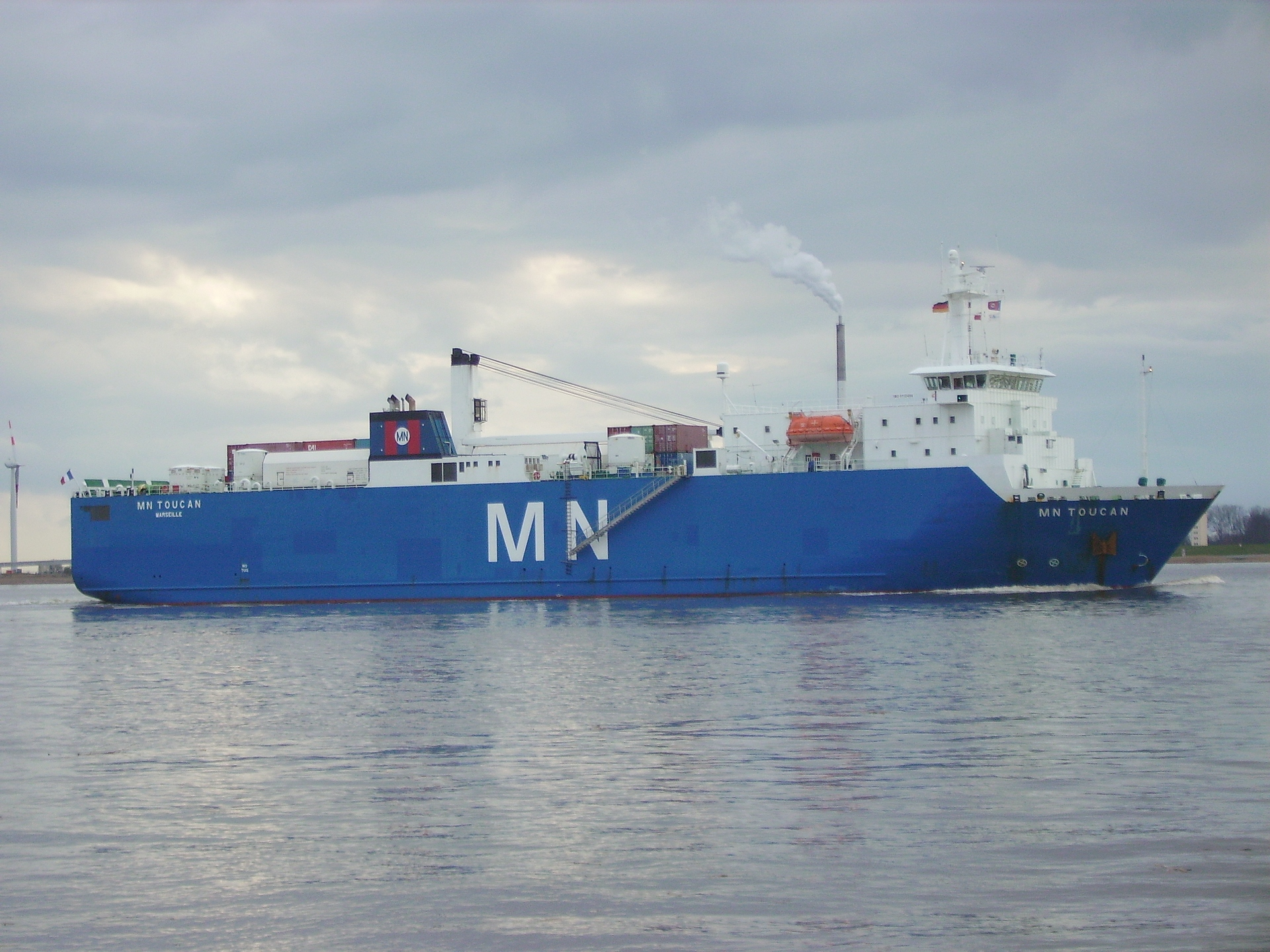 The RoRo and LoLo (Lift-on/Lift-off) ship "MN Toucan" on the River Weser passing the town of Bremerhaven. IMO number: IMO 9112466